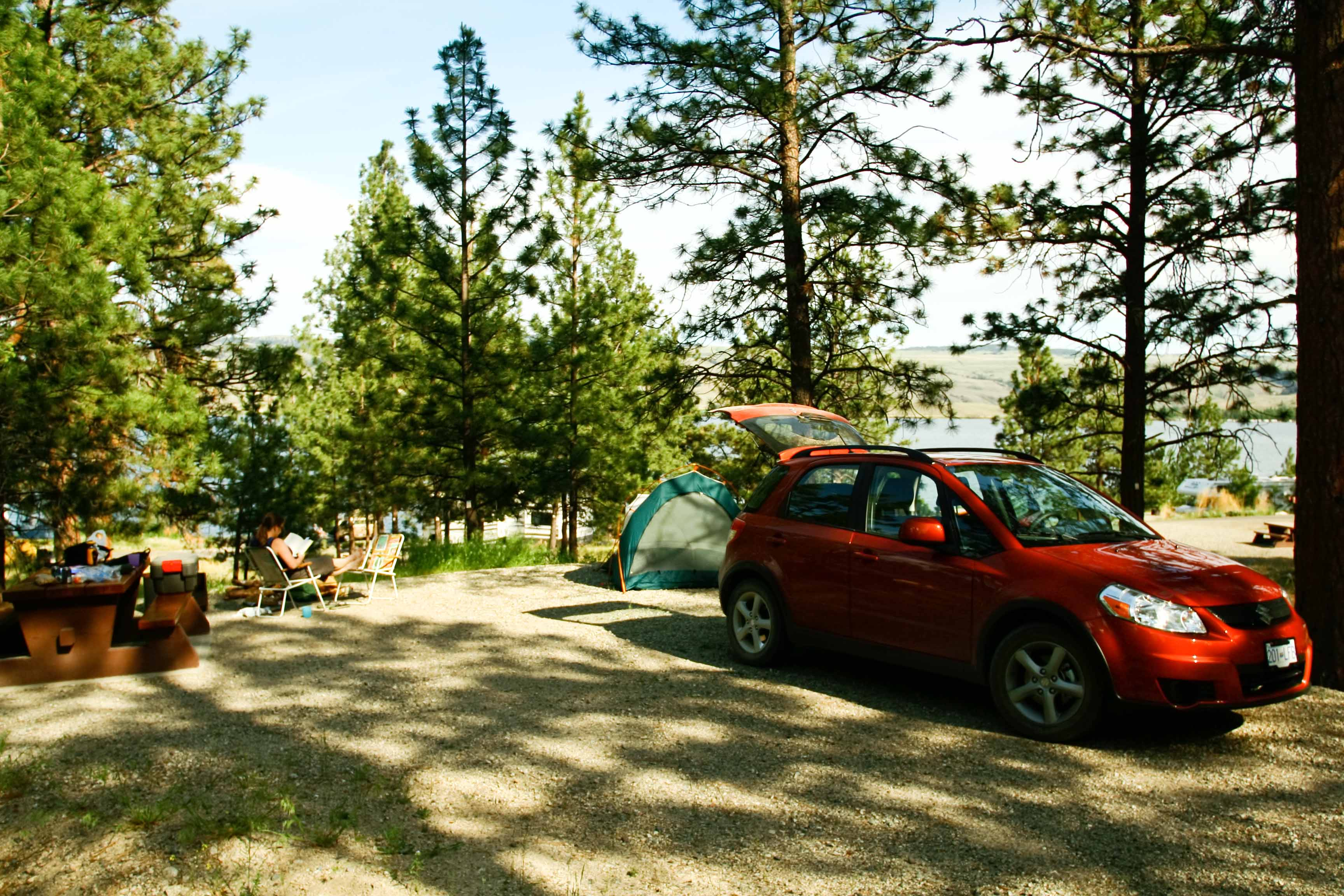 Monck Provincial Park, 30 May 2009